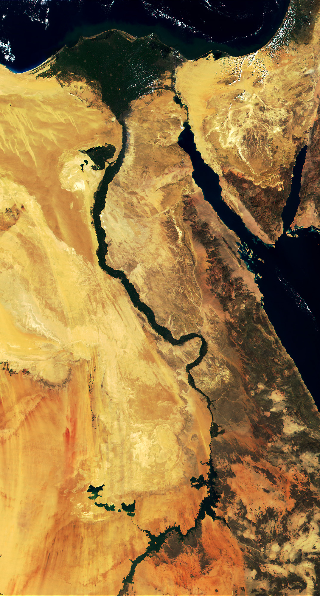 The Nile river and delta winds through Egypt in this image from MODIS.